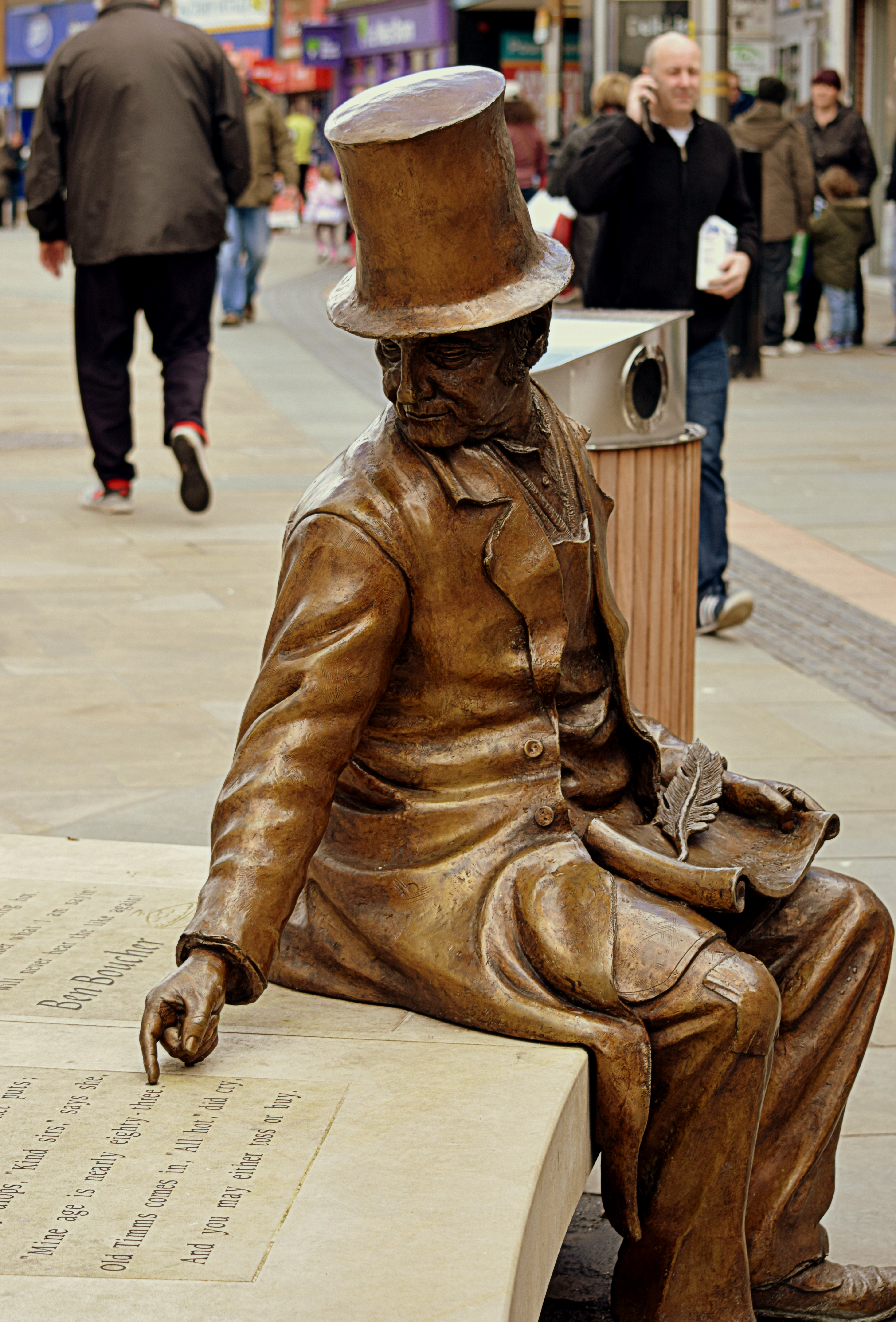 bronze statue created by John McKenna sculptor designed by Steve Field Dudley Borough public artist, commissioned by Dudley MBC for Dudley Town centre, 2015